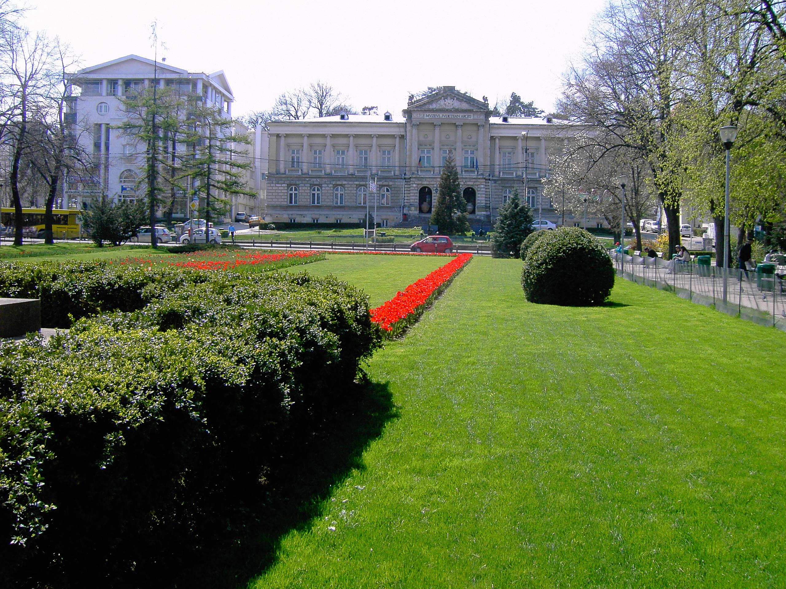 County Museum Arges, Pitesti 01